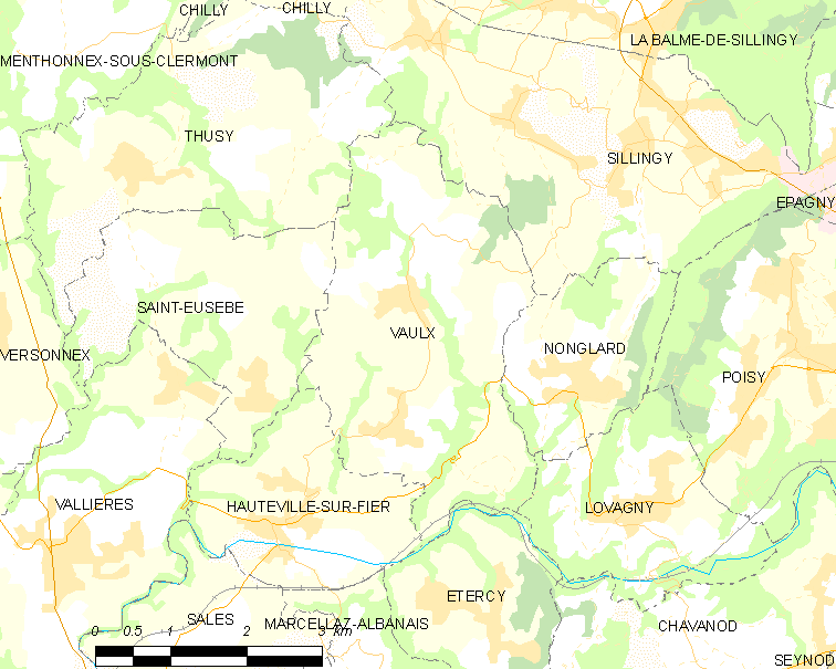 Map of French municipality Vaulx